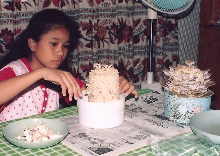 Author: Jose A. Fadul. I took this picture of my niece harvesting the oyster mushrooms that I have cultivated using oyster mushroom spawns embedded in sawdust mixtures in plastic containers. I used a film camera. I had the picture scanned and cropped.